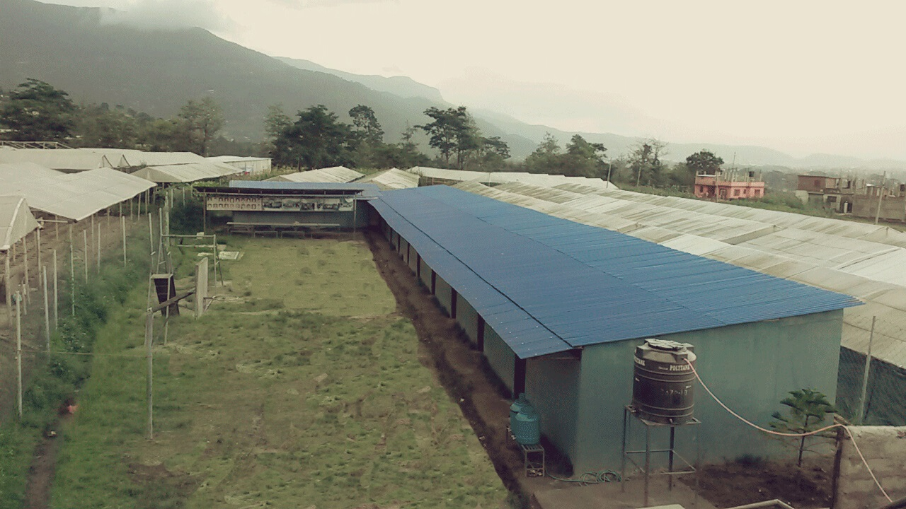 Earthquake Relief School